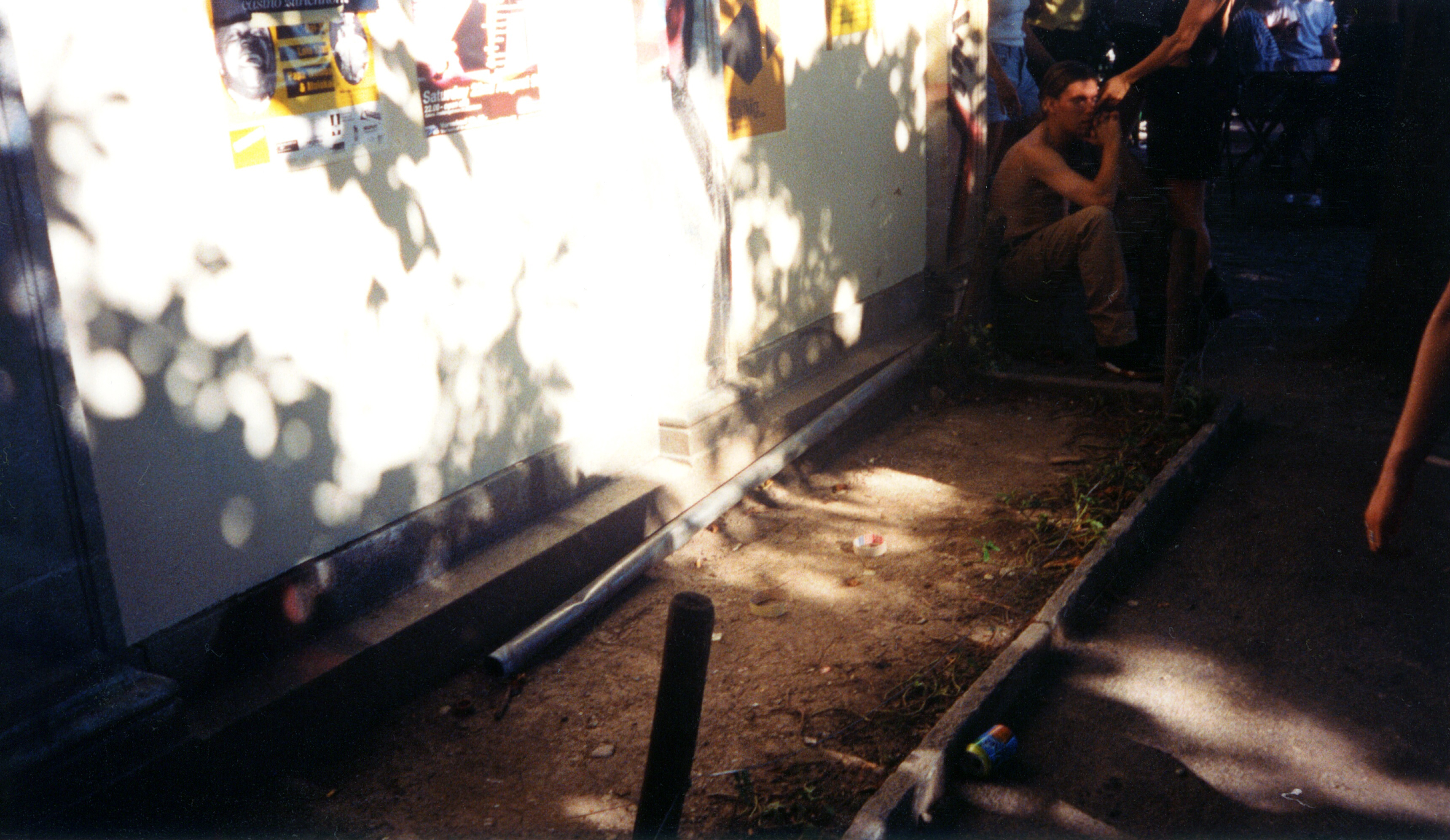 Rain-tube torn down by a man in a slap-stick like manner while climbing down from the toilet building roof at Streetparade 1997 on August 9th, 1997. The rain tube laid at Street Parade 1998 still at the same place where it was posed in 1997 after the incident!